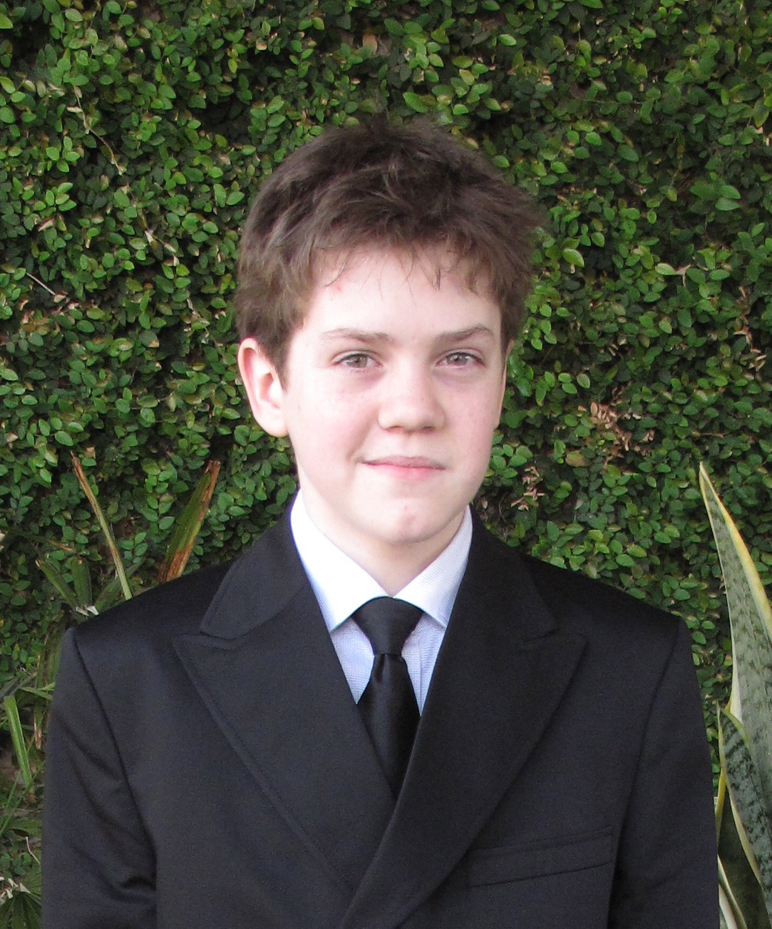 Robert Naylor at the Sportsmen Lodge in Studio City, California for the 32nd Annual Young Artist Awards